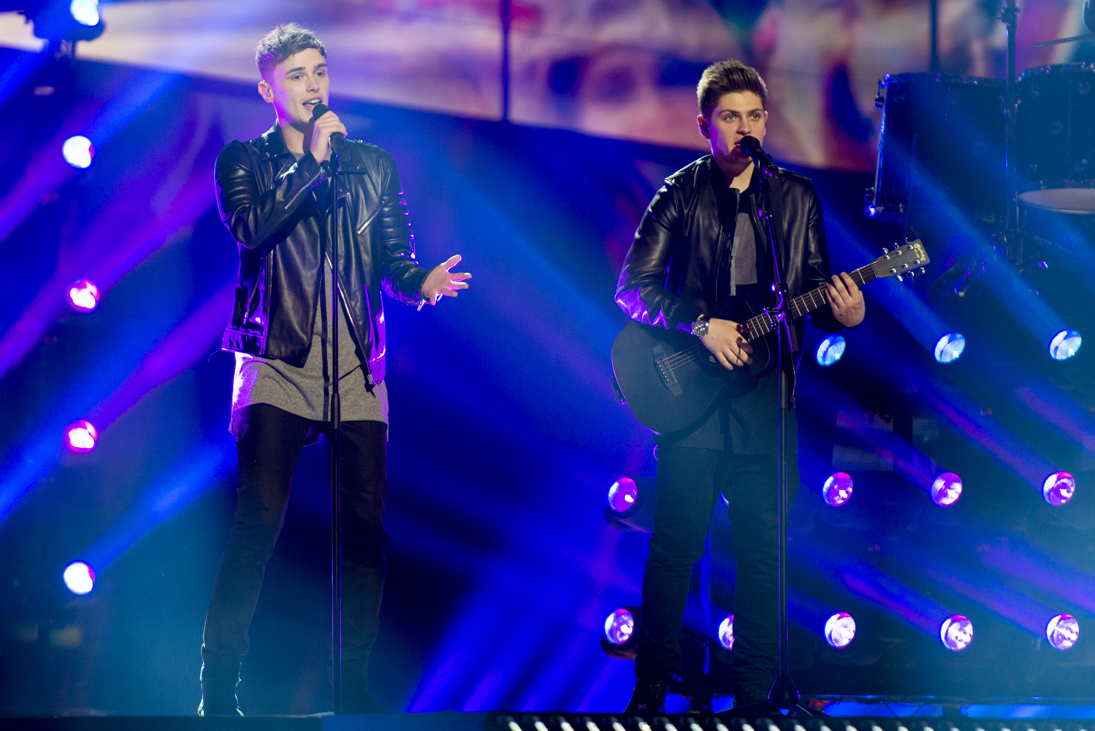 Joe & Jake representing United Kingdom with the song "You're Not Alone" during a rehearsal for "the Big Five" in the Eurovision Song Contest 2016 in Stockholm. (Help translate this text)